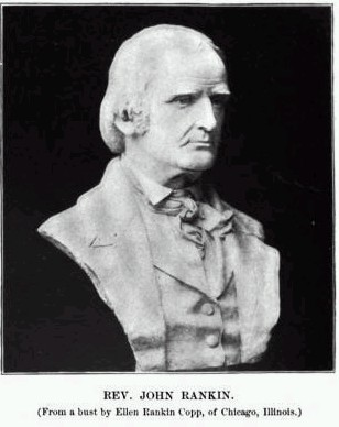 John Rankin (1793–1886)